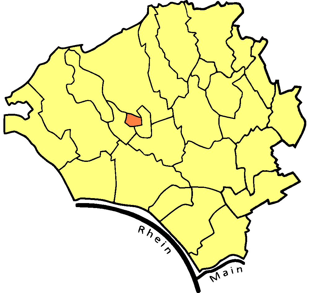 Map of Wiesbaden showing the location of Westend